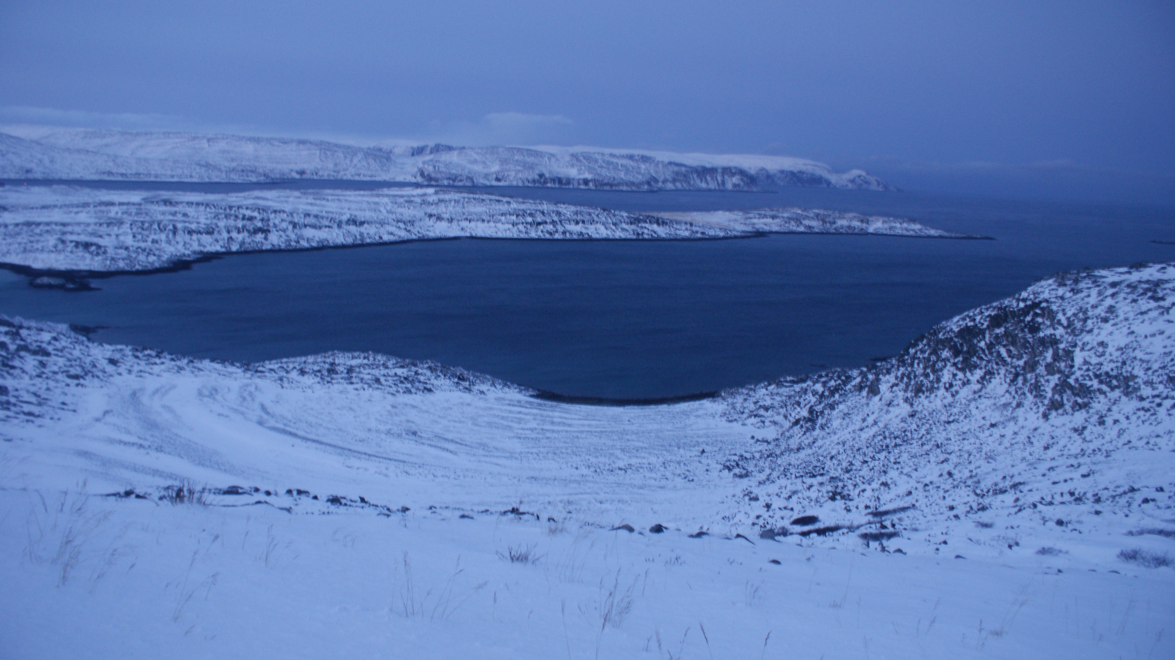 Mehamnfjorden during Polar Night, Nordkinnhalvøya, Finnmark, Norway. Normannsethfjorden, Vedvikneset just north of Mehamn, Mehamnfjorden, Smørbringen peninsula, and far away, the peninsula within the Nordkinn Peninsula, with Reipnakktinden vidda and a sugarhead of Kinnarodden.